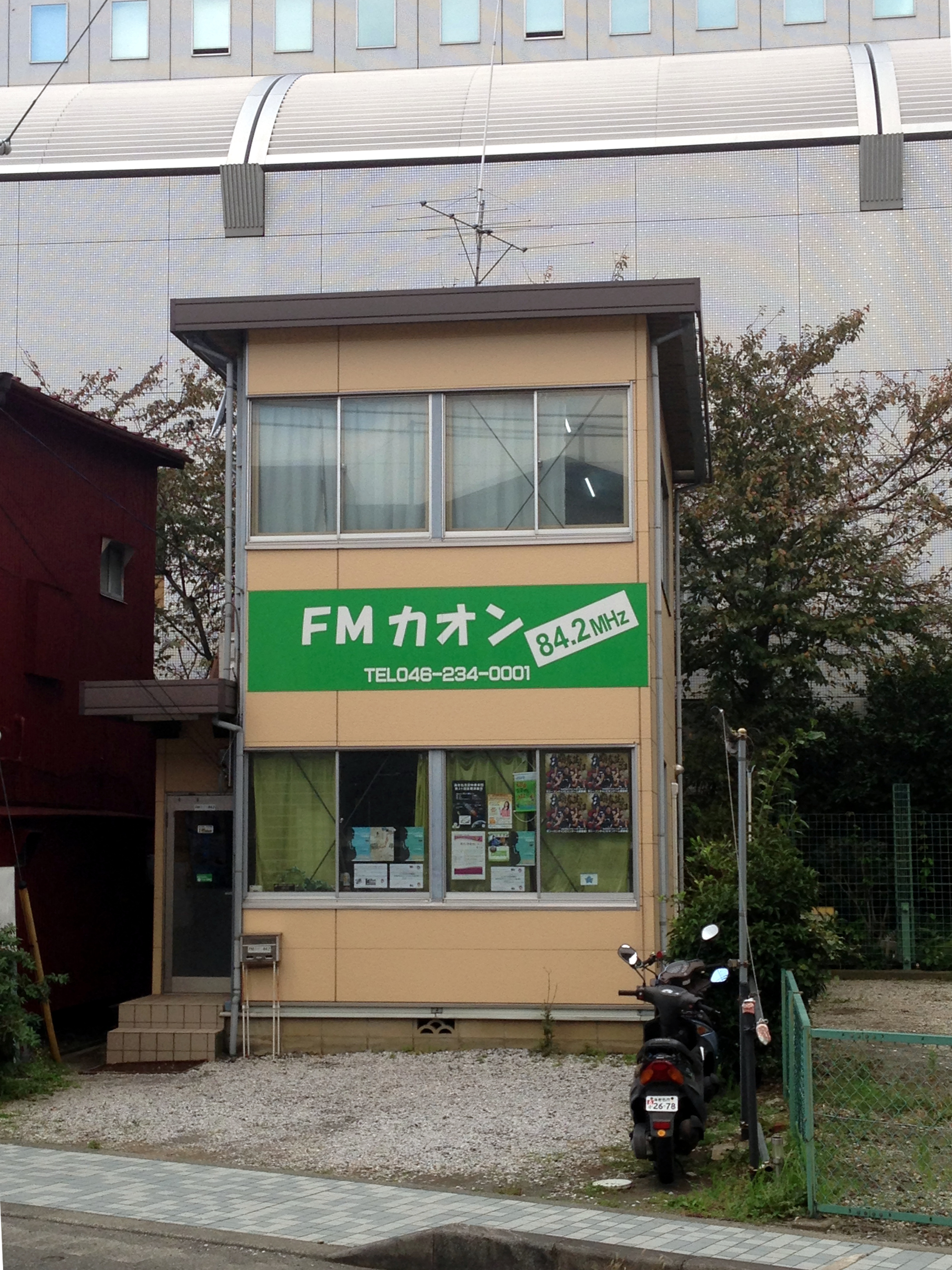 The old head office of FM Kaon in Japan.